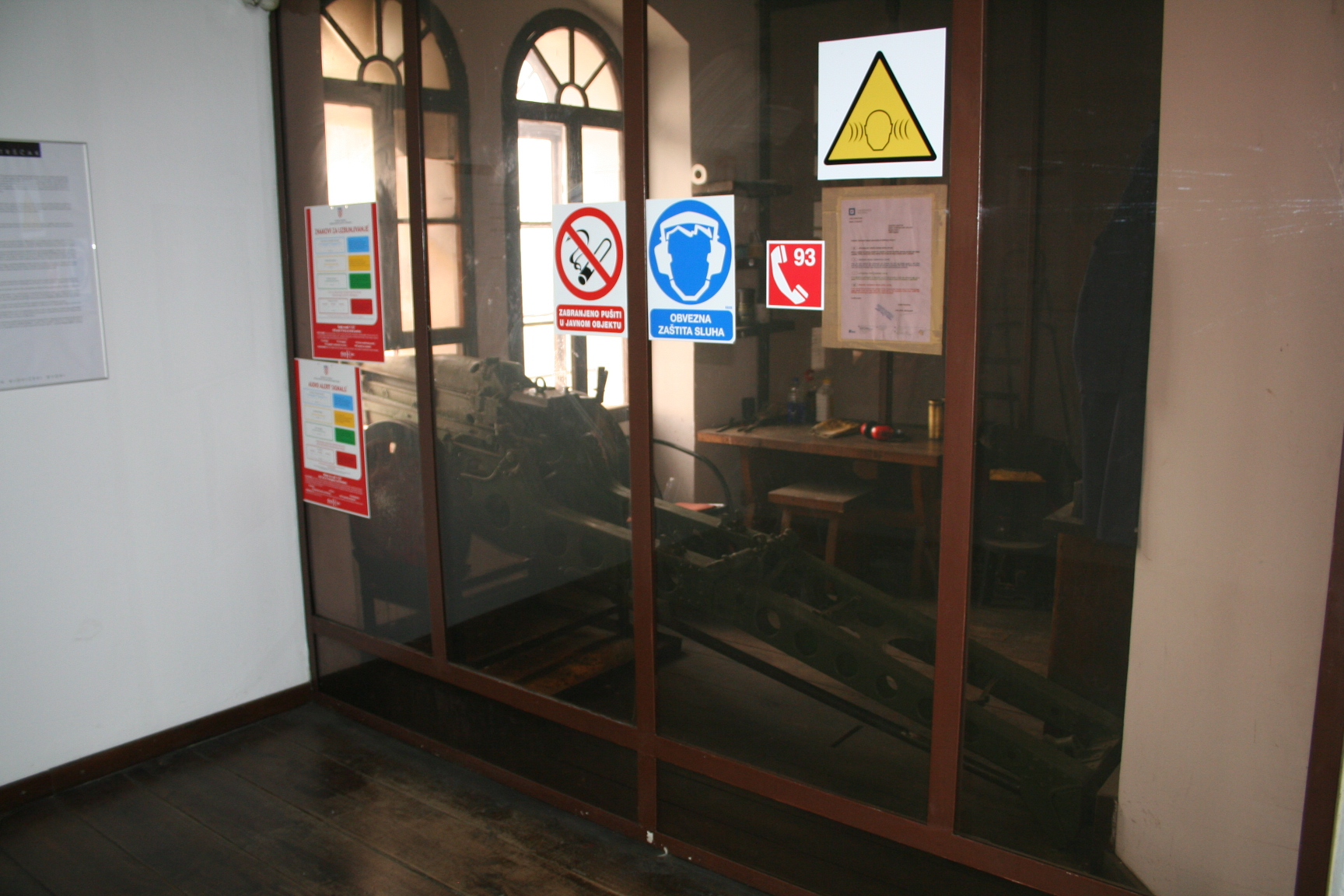 The Grič cannon in April 2014.